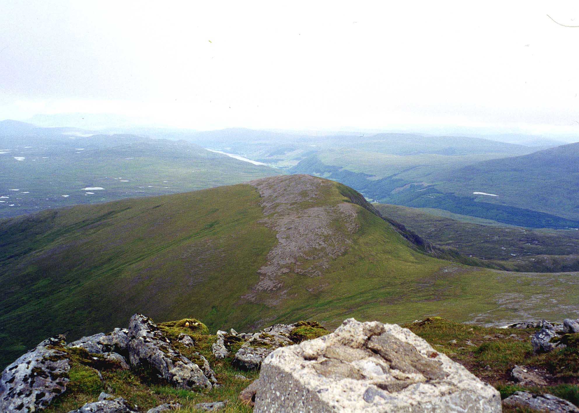 Personal picture taken by Mick Knapton